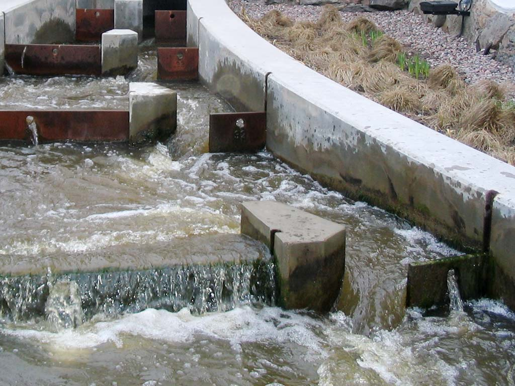 Fish ladder (vertical slot fish ladder) in Fyrisån (Fyris river) Uppsala, Sweden.